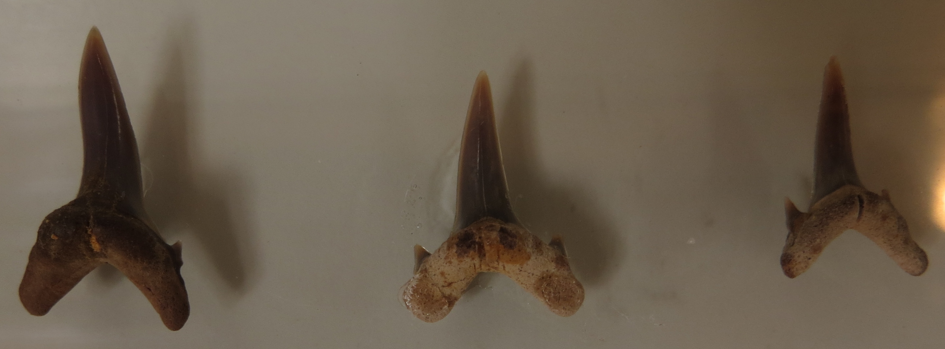 Fossil of Synodontaspis - Took the picture at Naturalis, Leiden